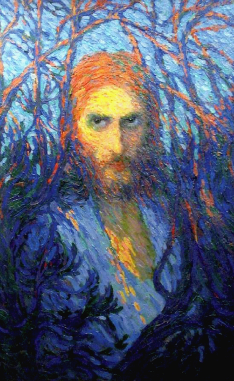 Lux in tenebris lucet ("The Light Shines in the Darkness"), exhibited at the 1909 Tinerimea Artistică Salon.